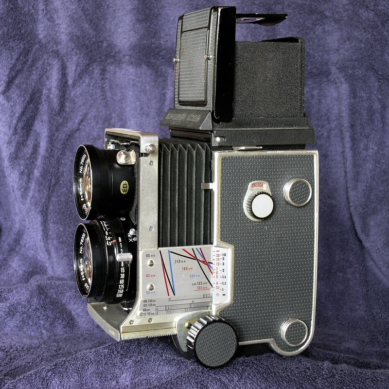 DANYvanvee